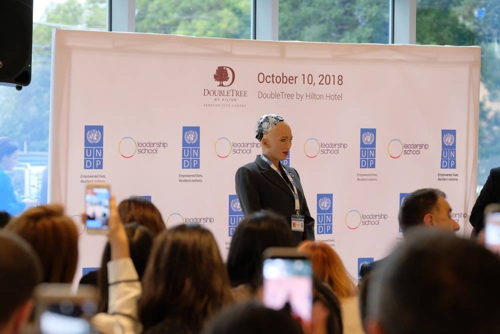 Open Meeting with Sophia social humanoid robot in DoubleTree by Hilton Yerevan City Centre